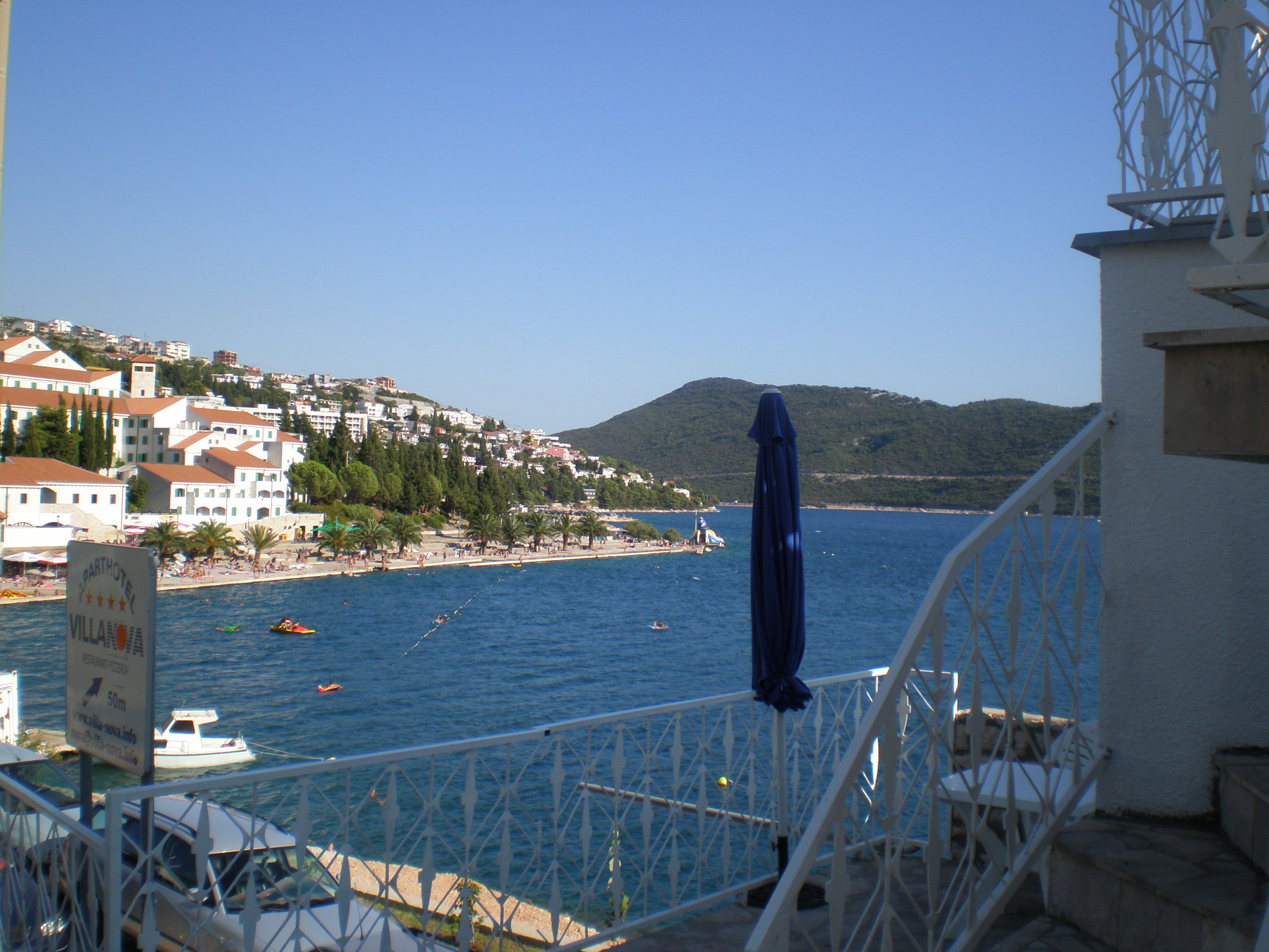 To the left the beach of Neum, to the right the small green peninsula of Neum.